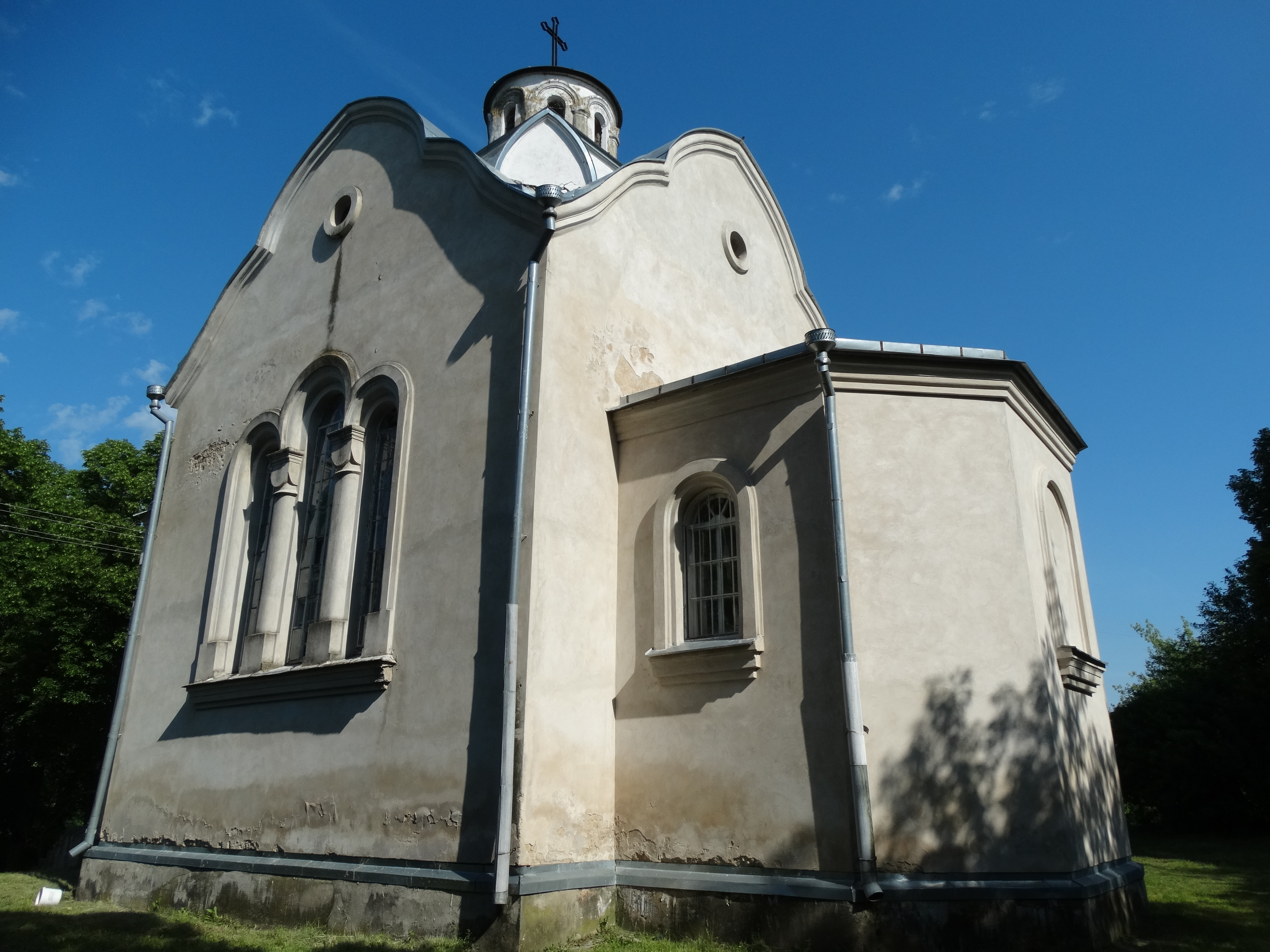 Our Lord Jesus Christ the Good Shepherd Chapel, Vėliučionys, Vilnius District, Lithuania